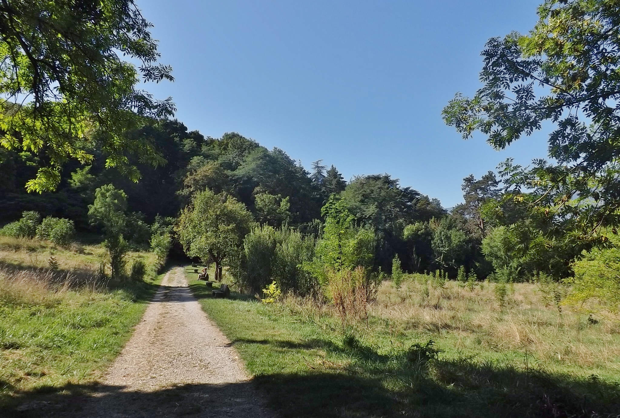 Sight of the Bois Vidal park and forest, on the heights of the French city of Aix-les-Bains in Savoie.